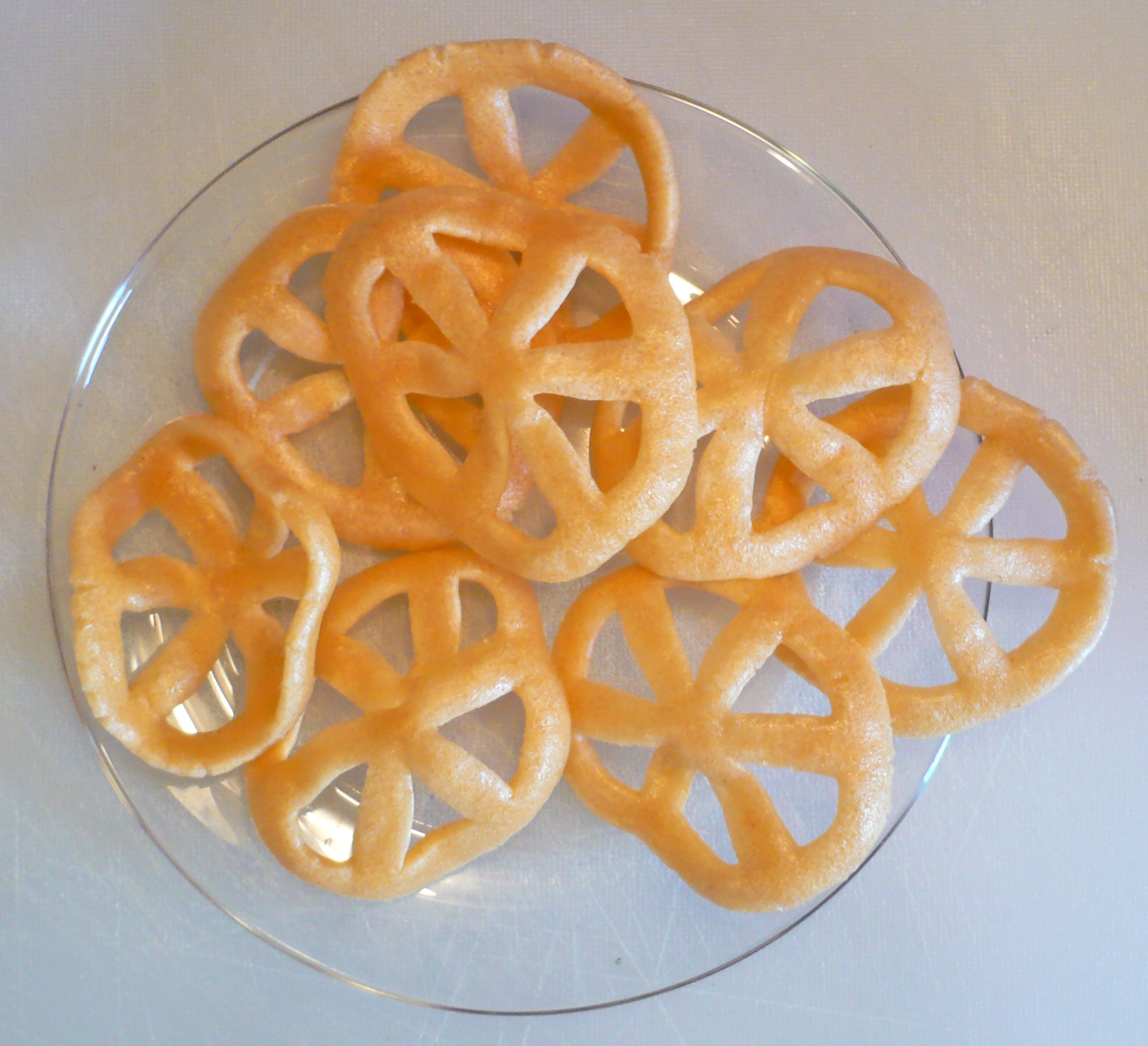 Round wheat Duros, also called "chicharrones de harina" from El Pueblo Bakery in Eureka, California.